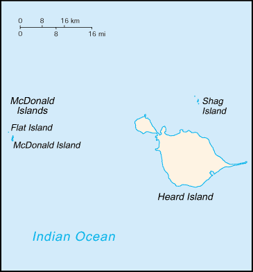 A map of the Territory of Heard Island and McDonald Islands, showing major islands.